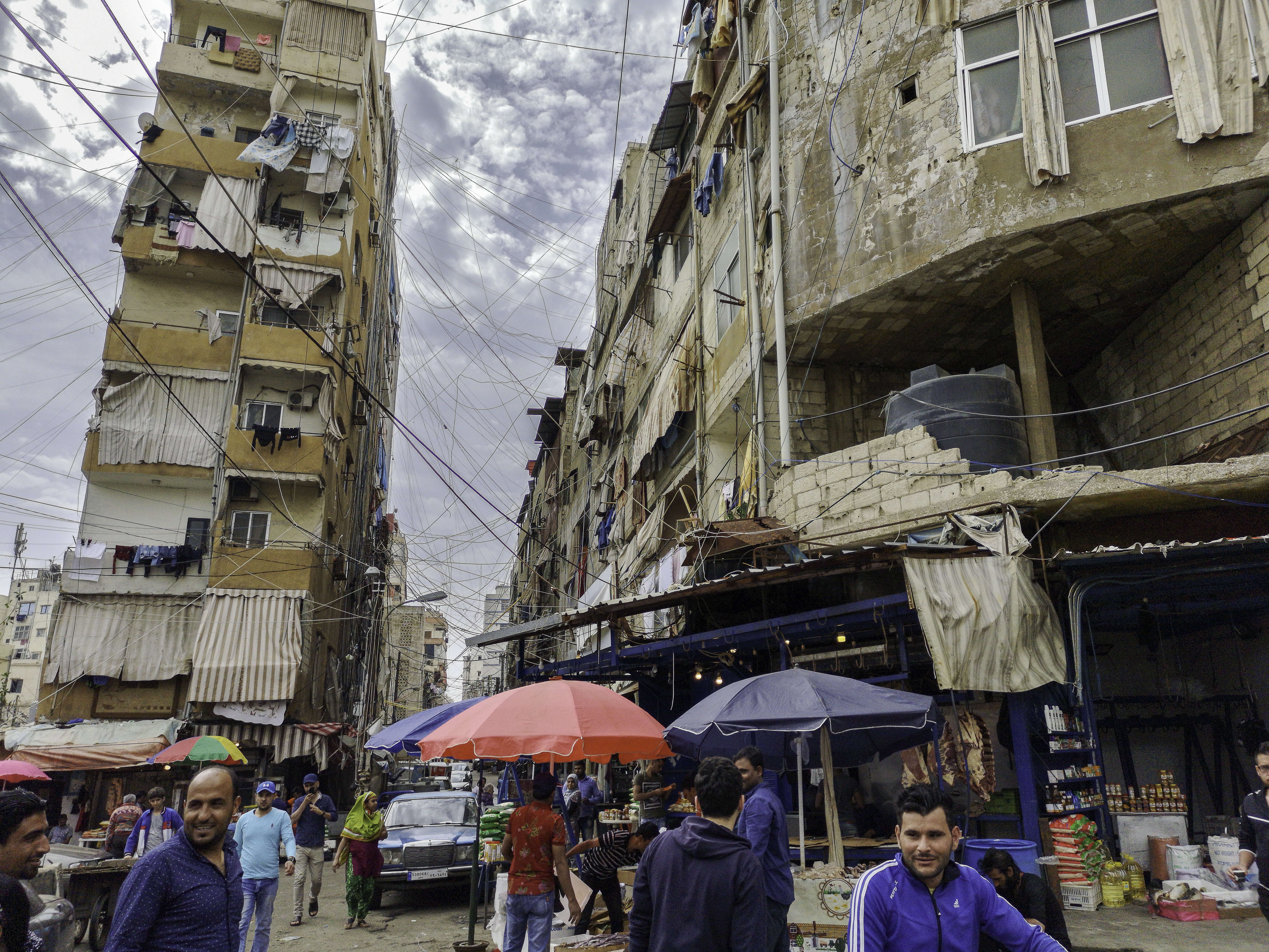 Street view of Shatila refugee camp